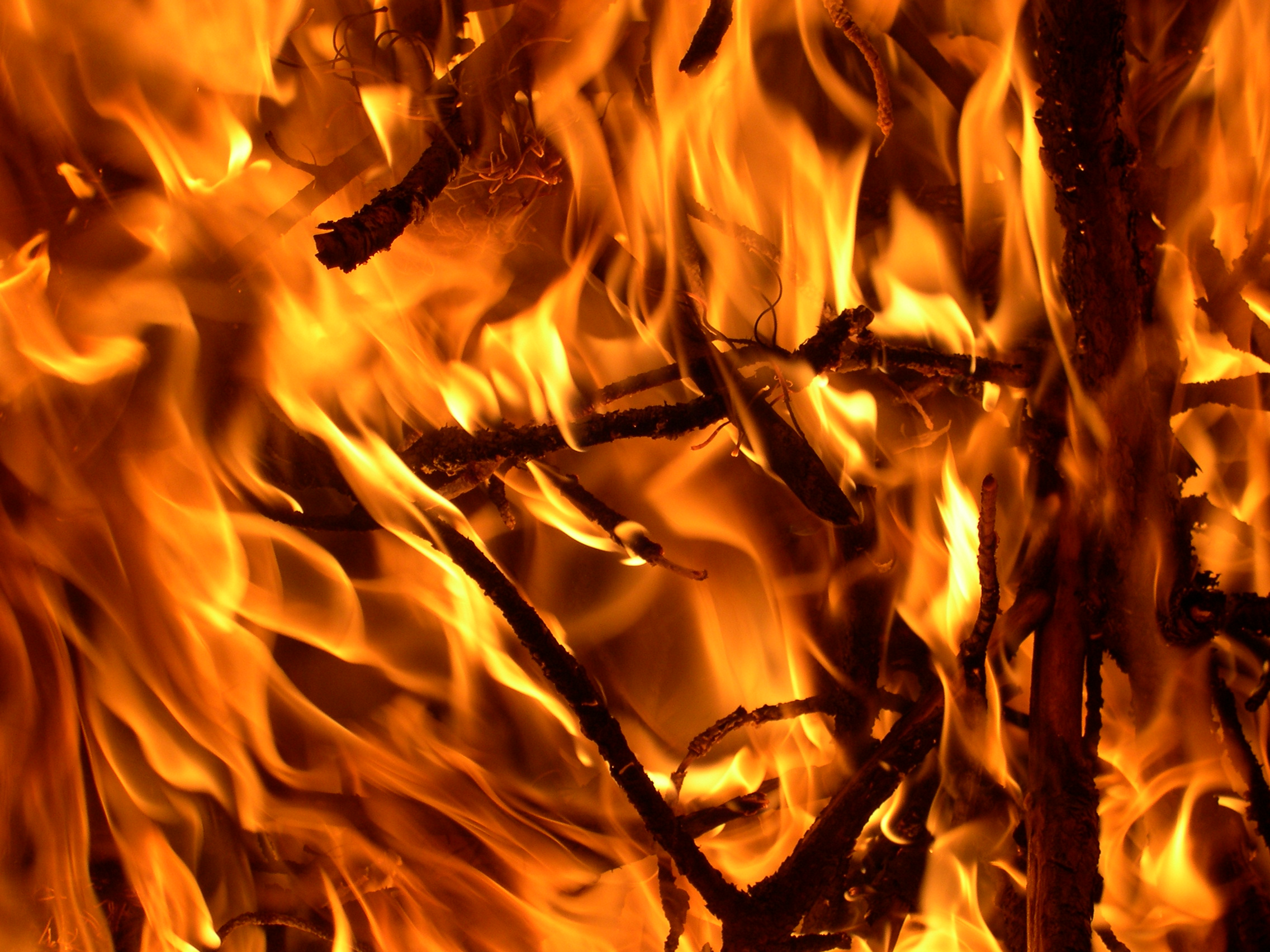 Camp fire